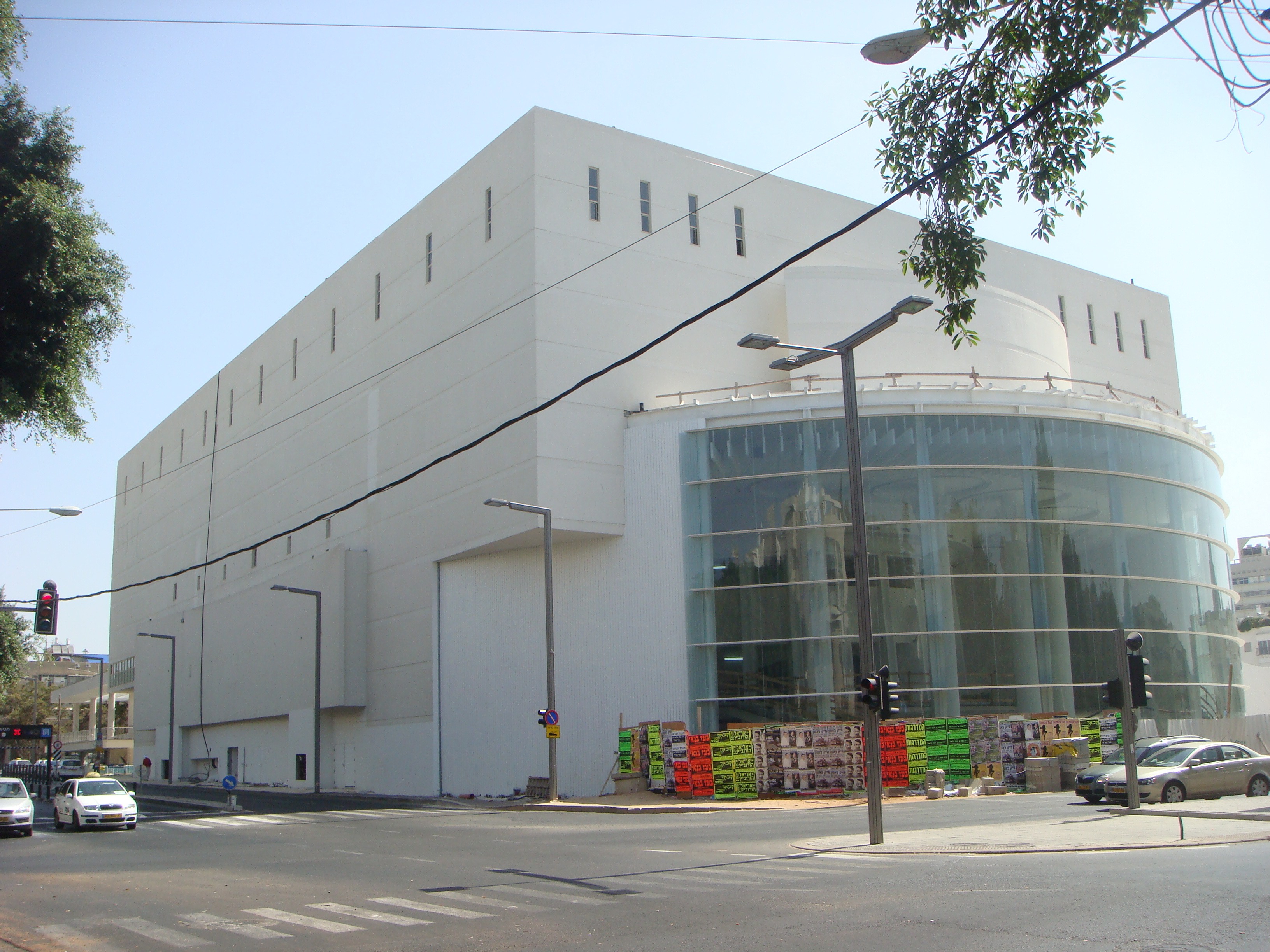 Renovated HaBima Theater in Tel Aviv. Bauhaus buildings and urban landscape in the White City of Tel Aviv